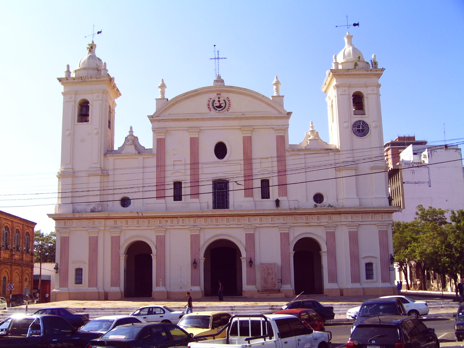 Cathedral in Asunción was constructed in 1845 during the rule of Carlos António López. [1]